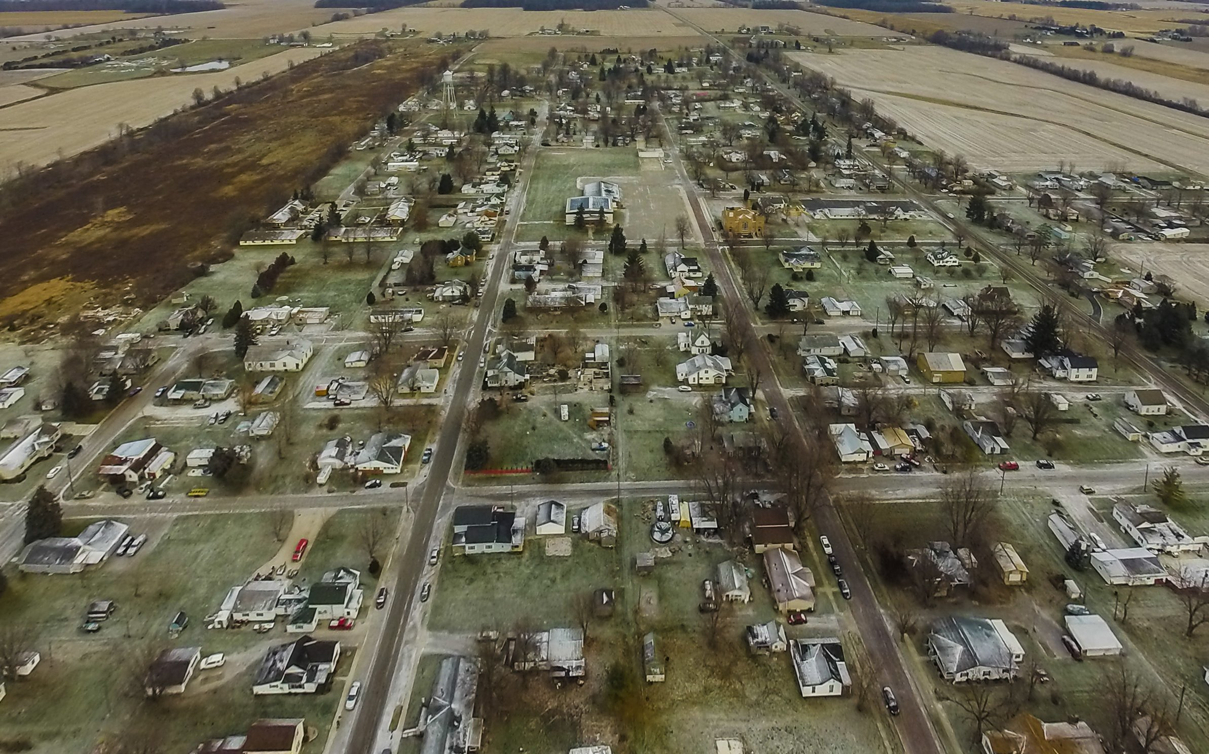 Alger Ohio looking North (November 2014) from drone